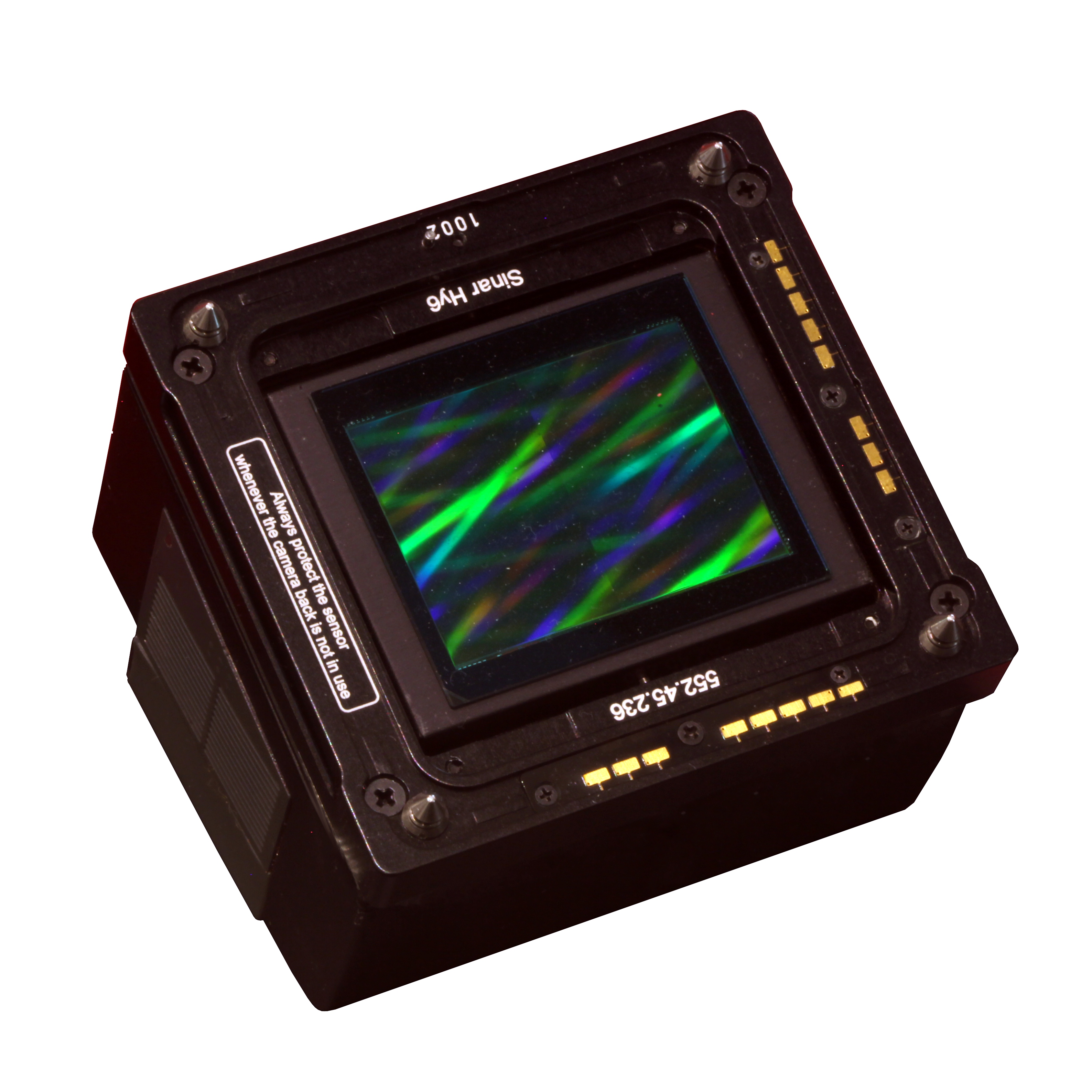 Digital back Sinar eVolution 75. 2007, 33MP.